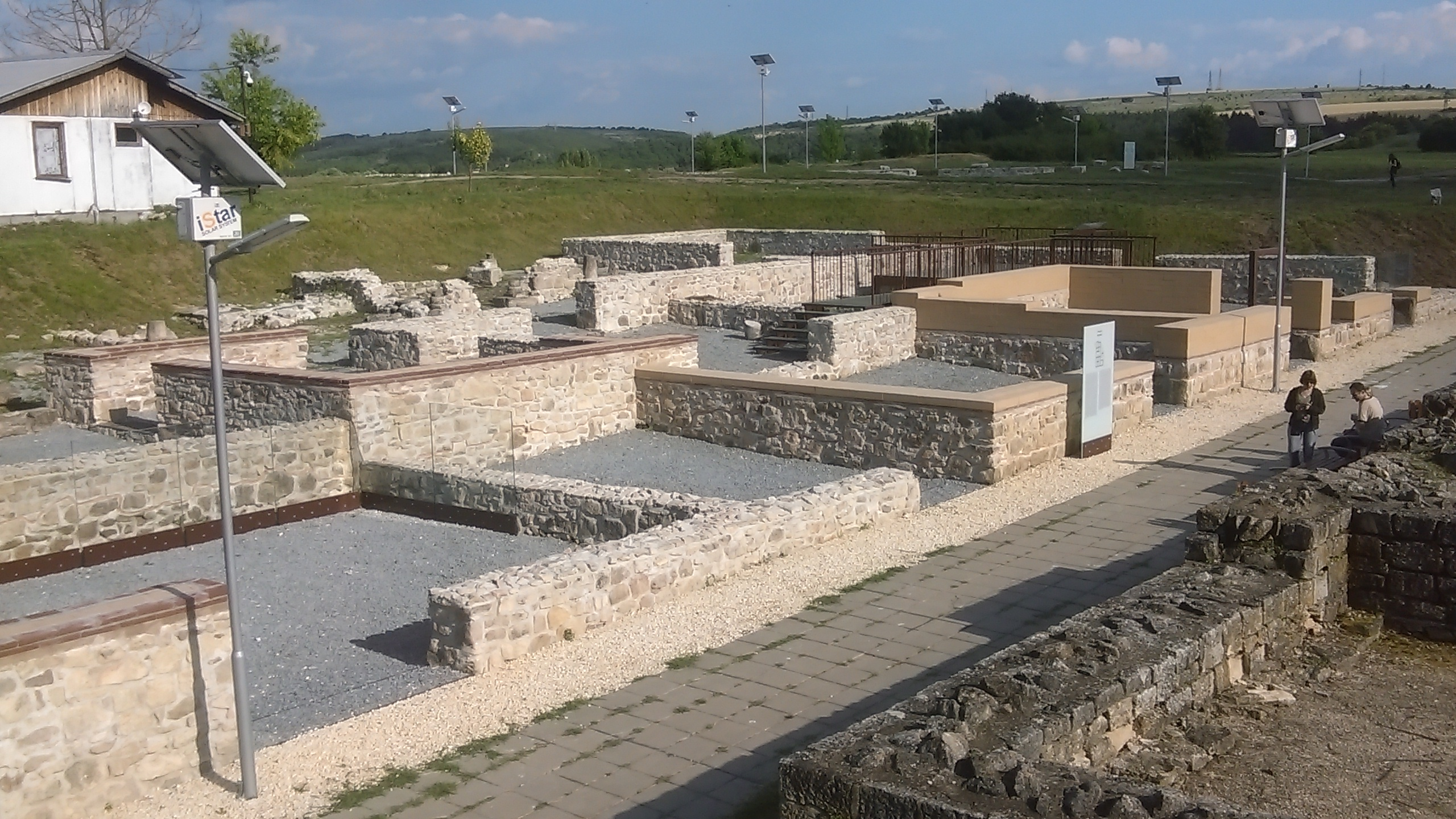 Buildings and ruins, Abrittus archeological reserve, Razgrad